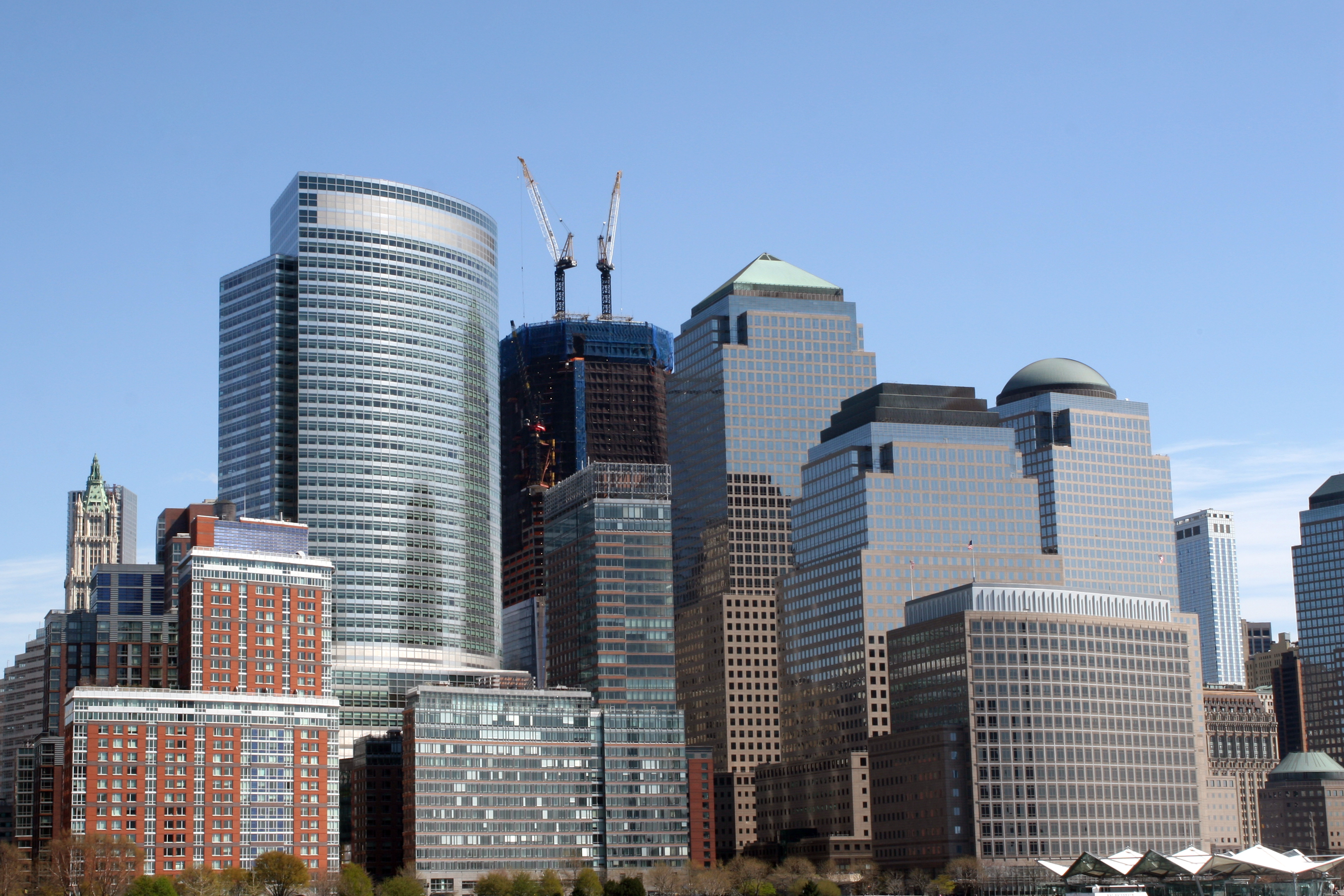 The World Financial Center skyline. Construction of One World Trade Center can be seen along with the other buildings.